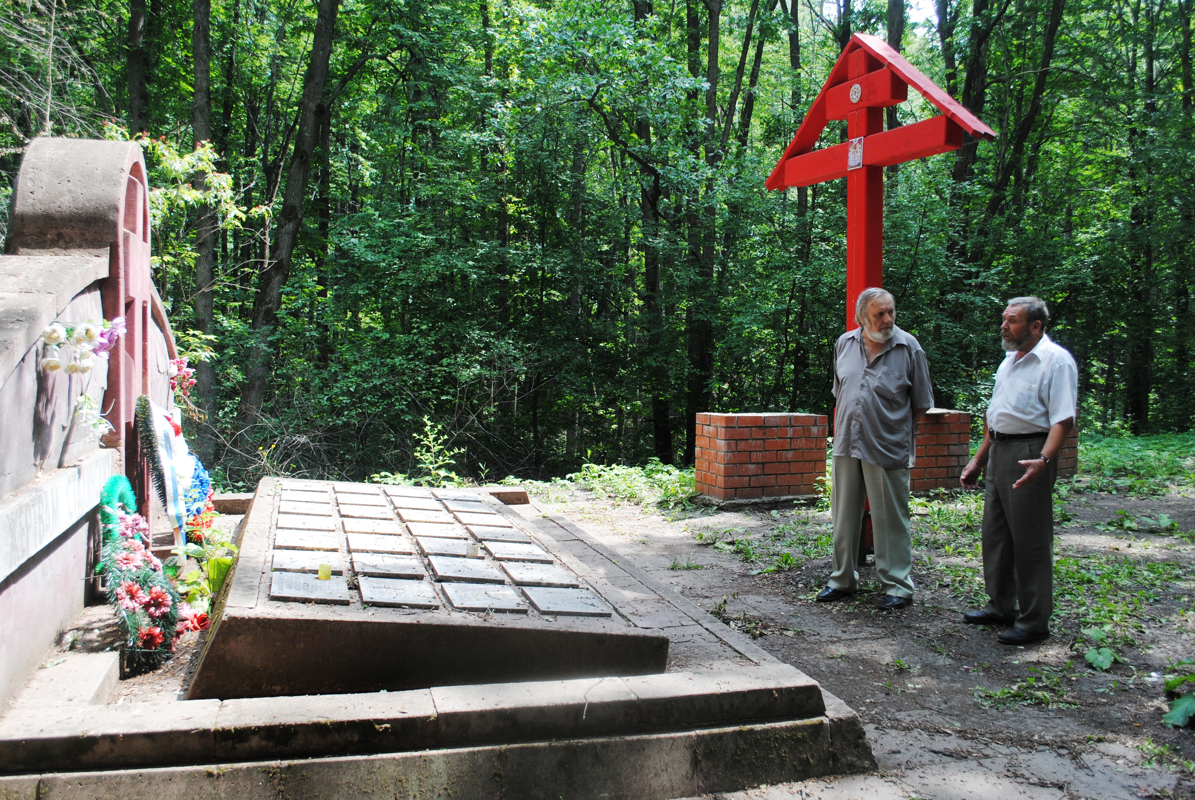 Lipovchik